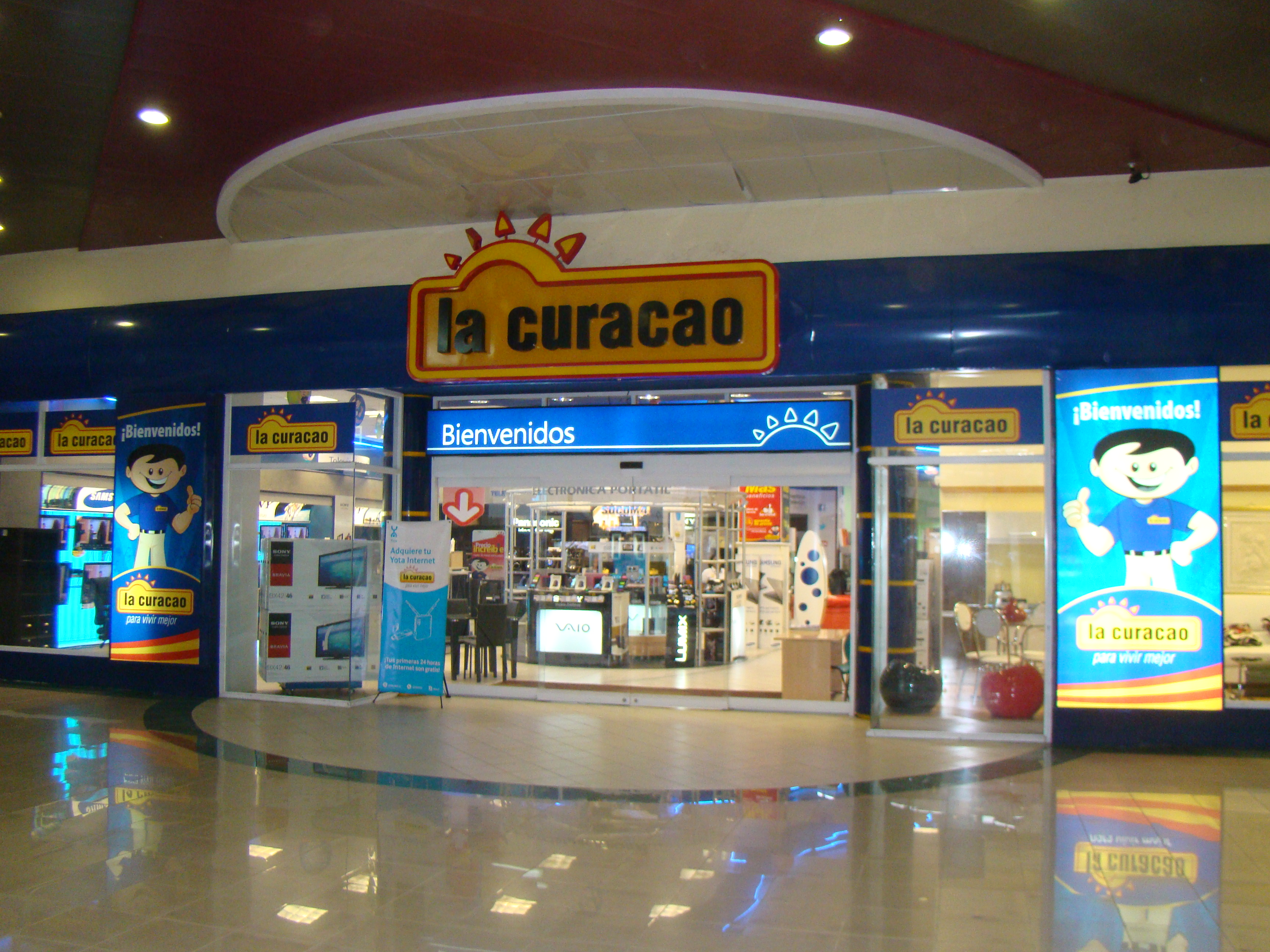 La Curacao Store in Managua, Nicaragua